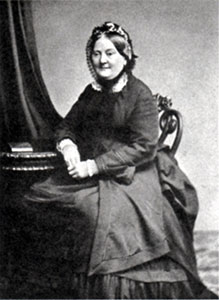 Emilie Wüstenfeld (1817–1874), (possibly) by E. Bieber, Hamburg c.1870.